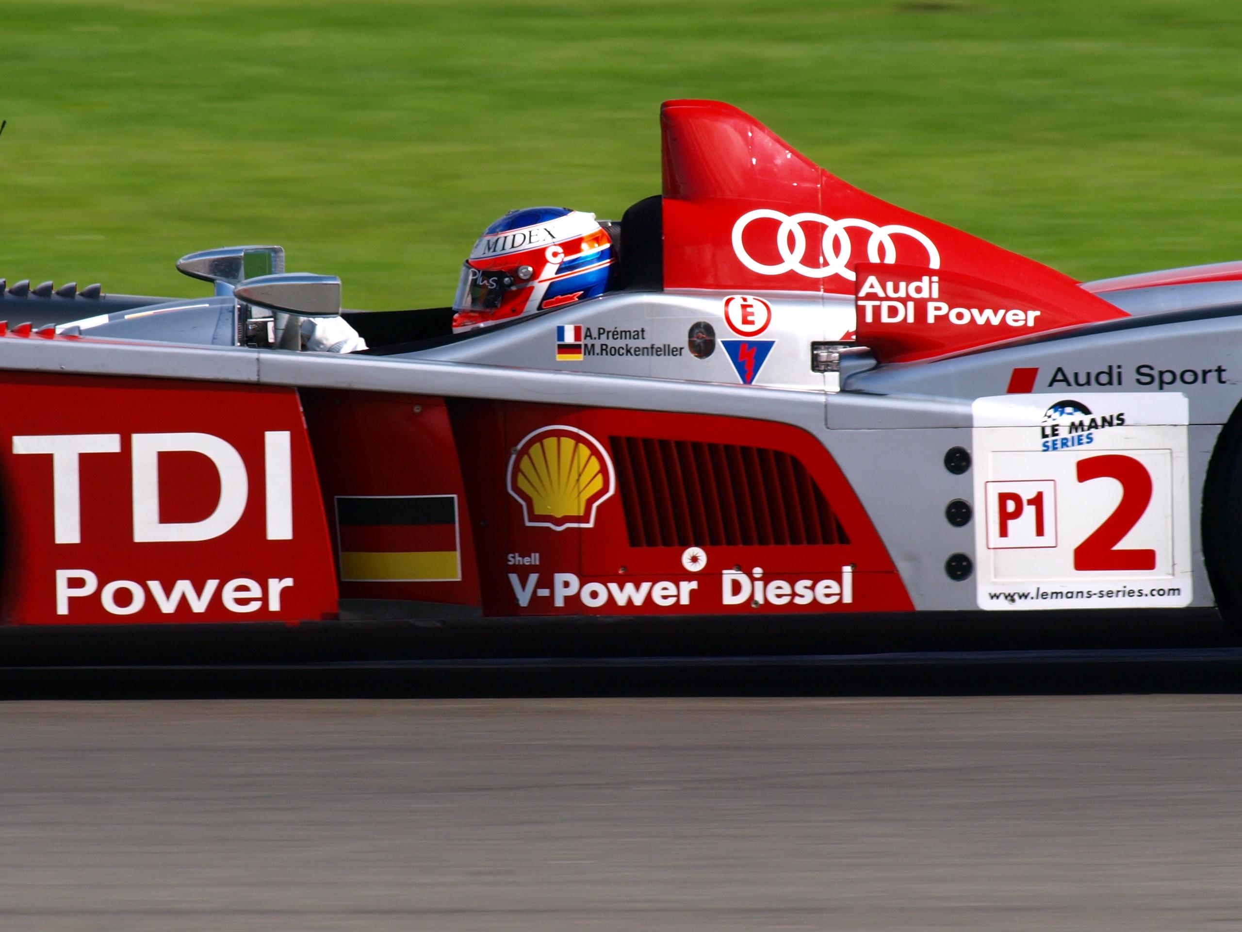 Alexandre Prémat in the Audi R10 at the 2008 1000km of Silverstone